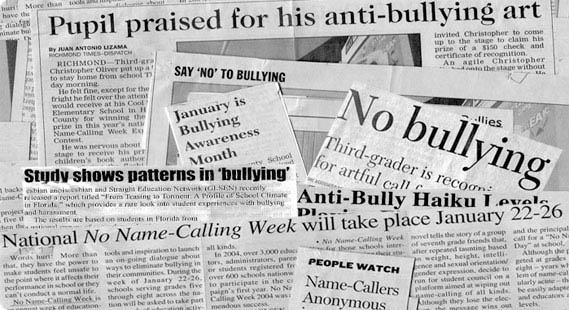 the picture consist of articles on bullying, I obtained it from public domain.